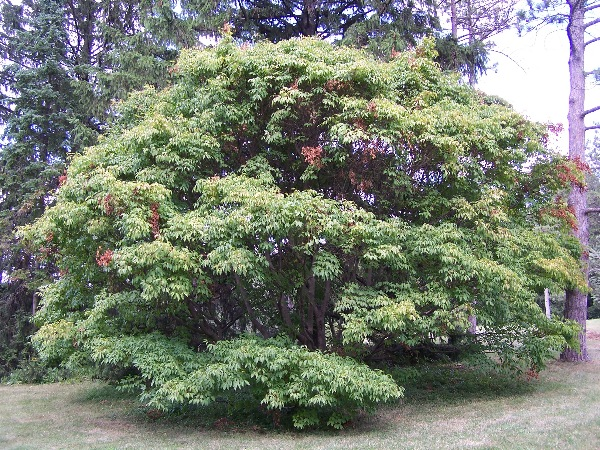 Acer cissifolium Morton Arboretum acc. 1074-58-1